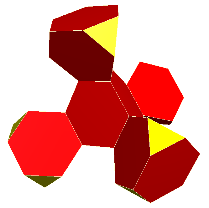 Bitruncated 5-cell net with 5 of 10 truncated tets